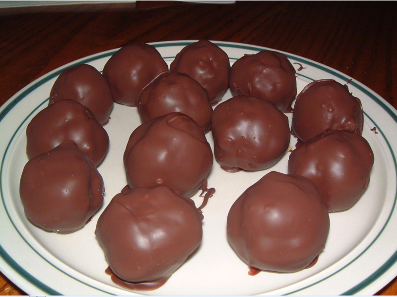 Picture of delicious chocolate balls.